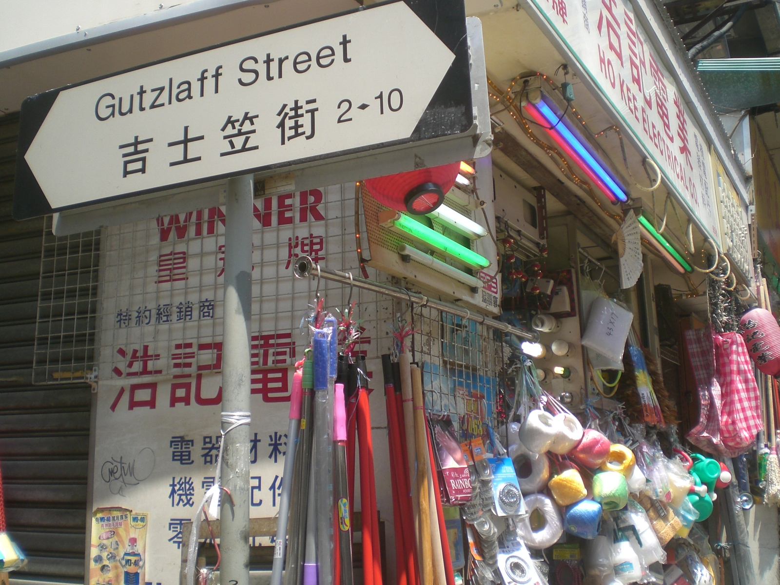 香港島中環威靈頓街近吉士笠街